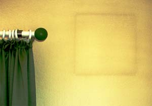 Dust deposition by thermophoresis. Pattern of a heat sink in the wall.